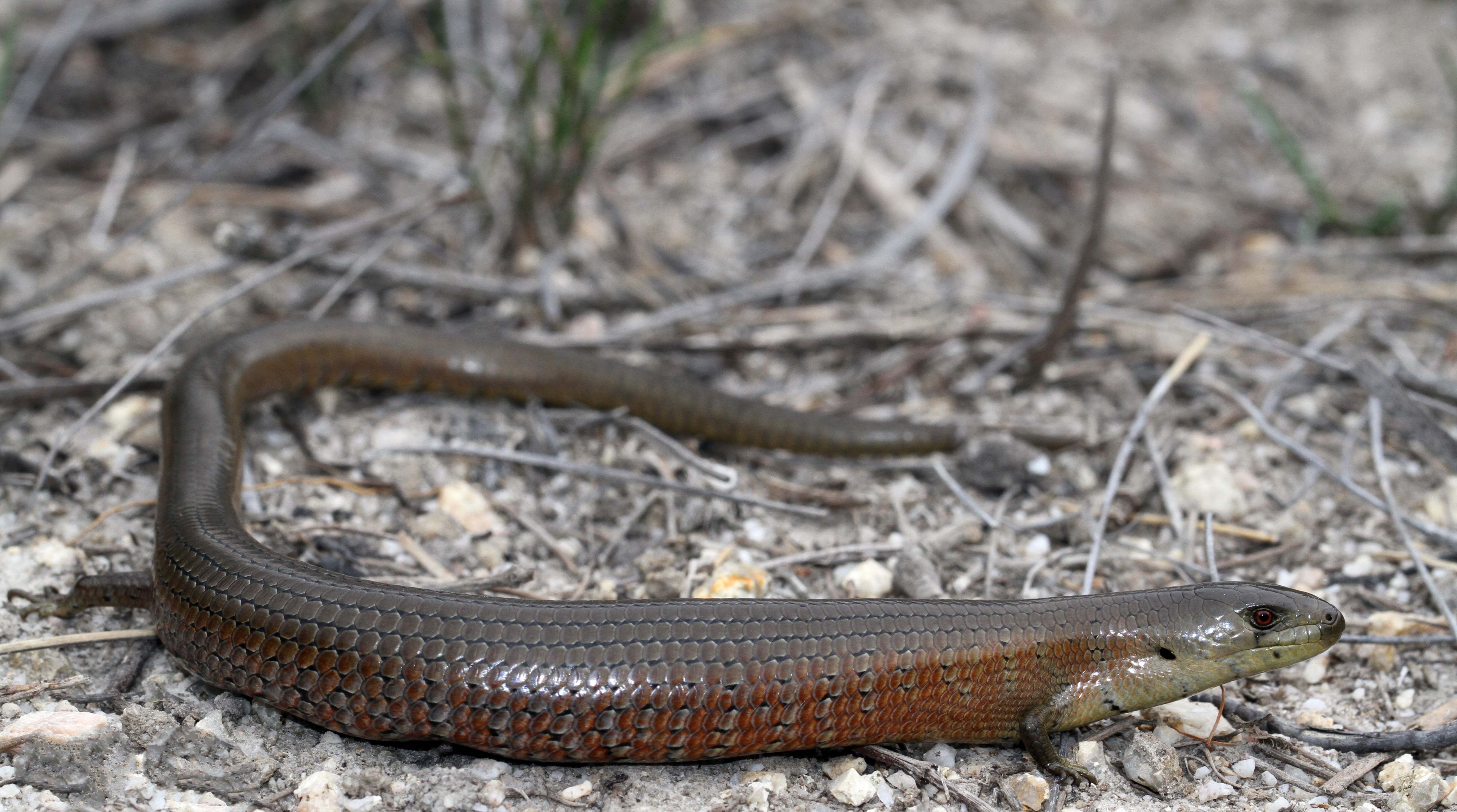 East Gippsland, Vic.